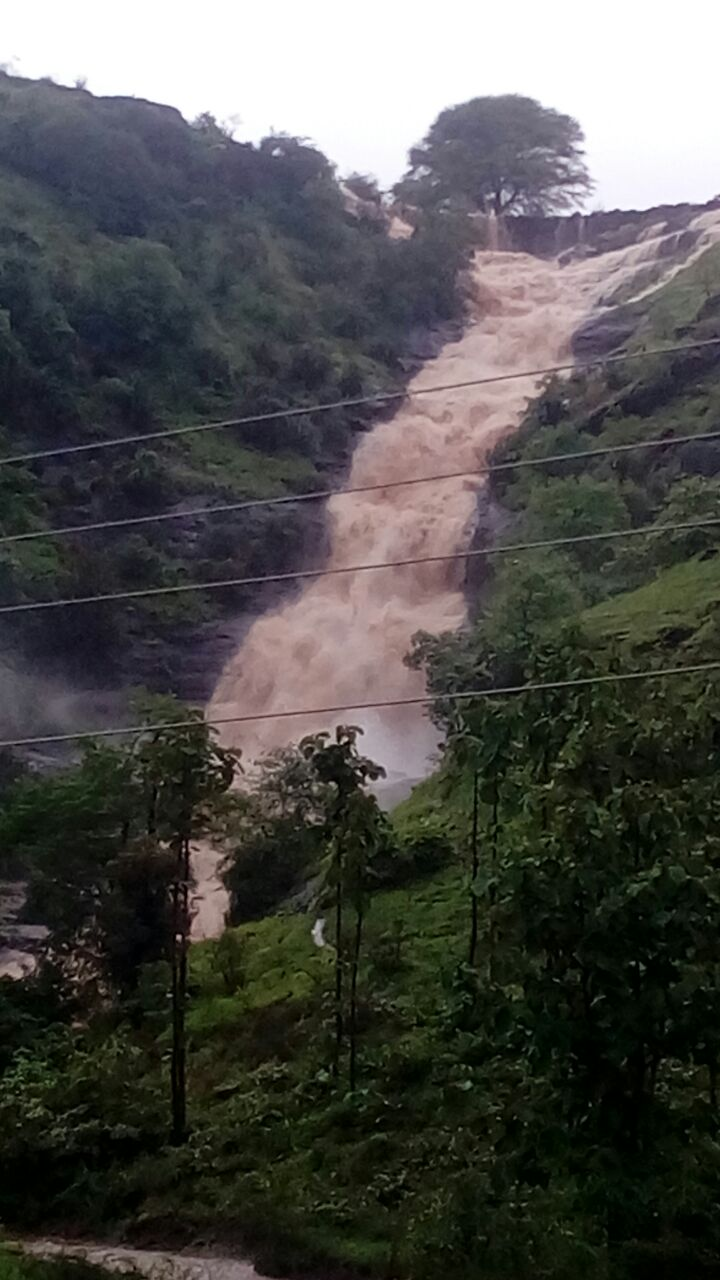 चोहंडी धबधबाविठे